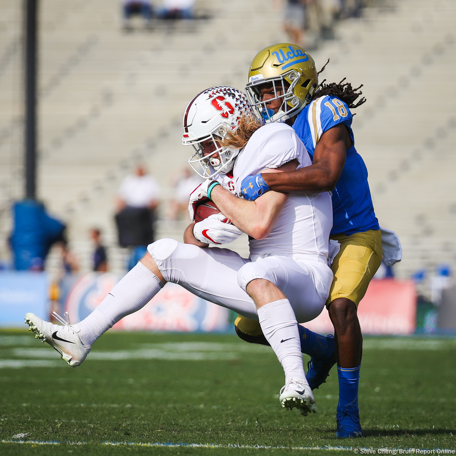 Elijah Gates tackles Trent Irwin